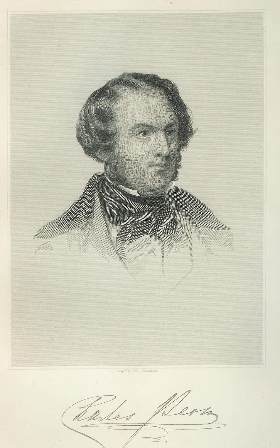 Portrait of Charles Lever.